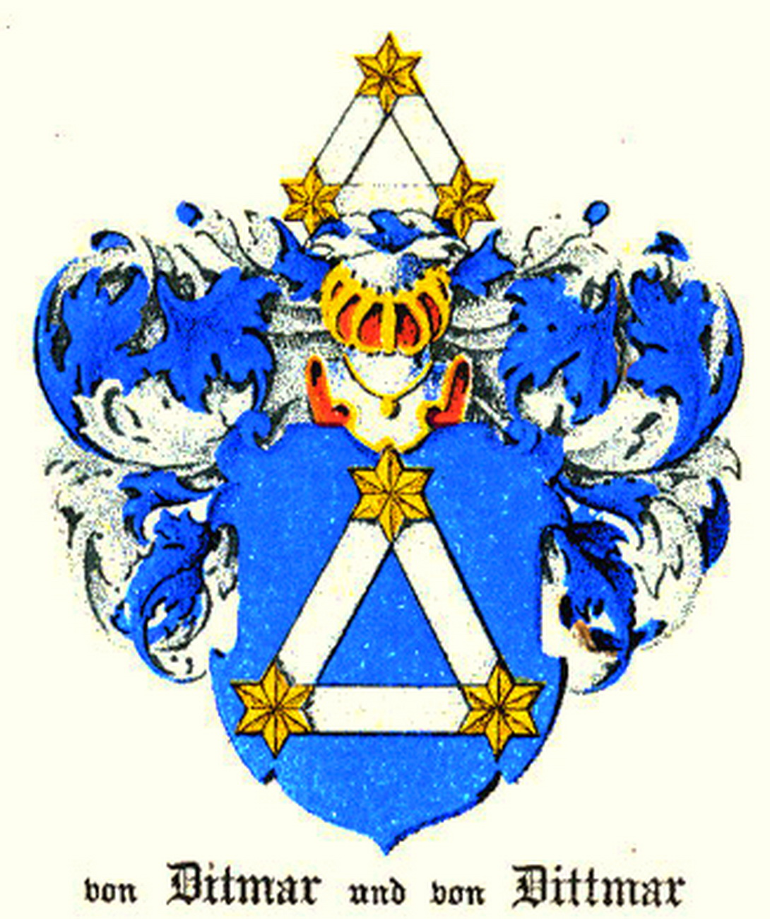 Coat of arms of Ditmar family